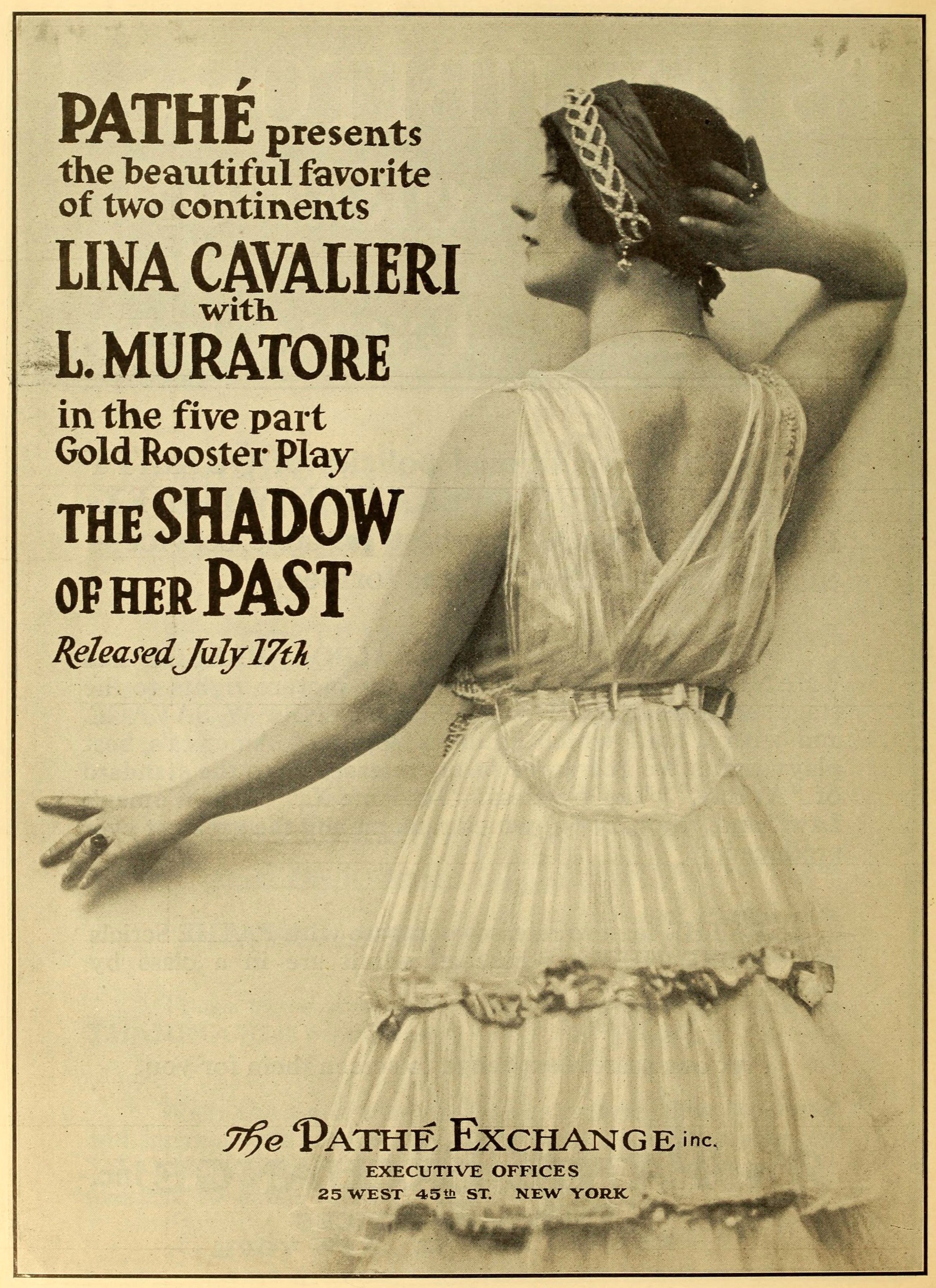 Advertisement in The Moving Picture World